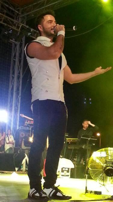 Gökhan Özen in a concert in Kocaeli, 2013.